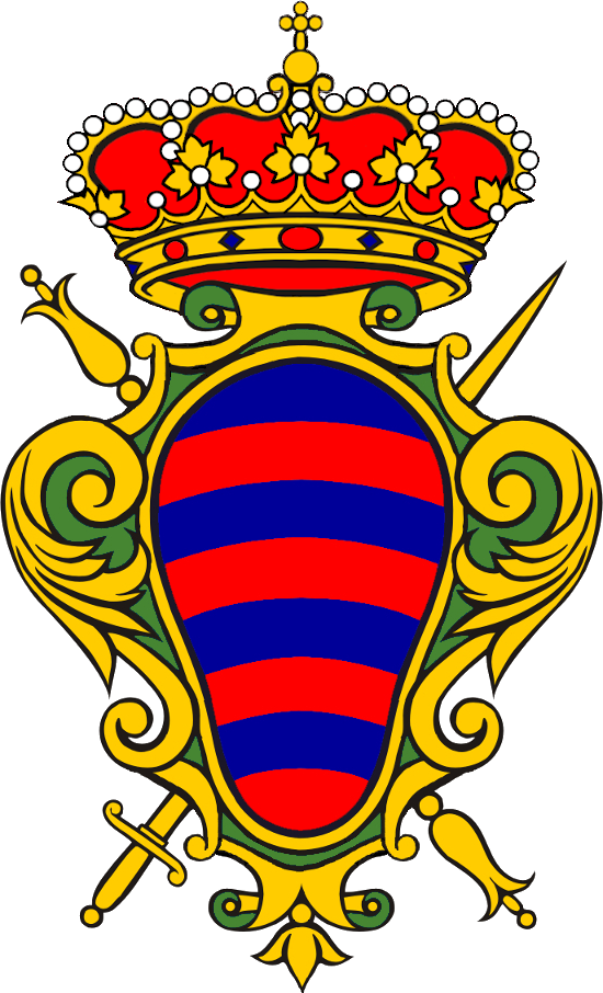 Dubrovnik coat of arms 18th century variant Аҧсшәа: Varijanta dubrovačkog grba iz 18. vijeka